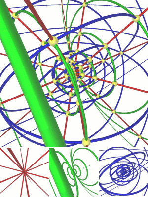 4D Spherical Cone, directrices, paralles and hyperparalles in Stereographic projection